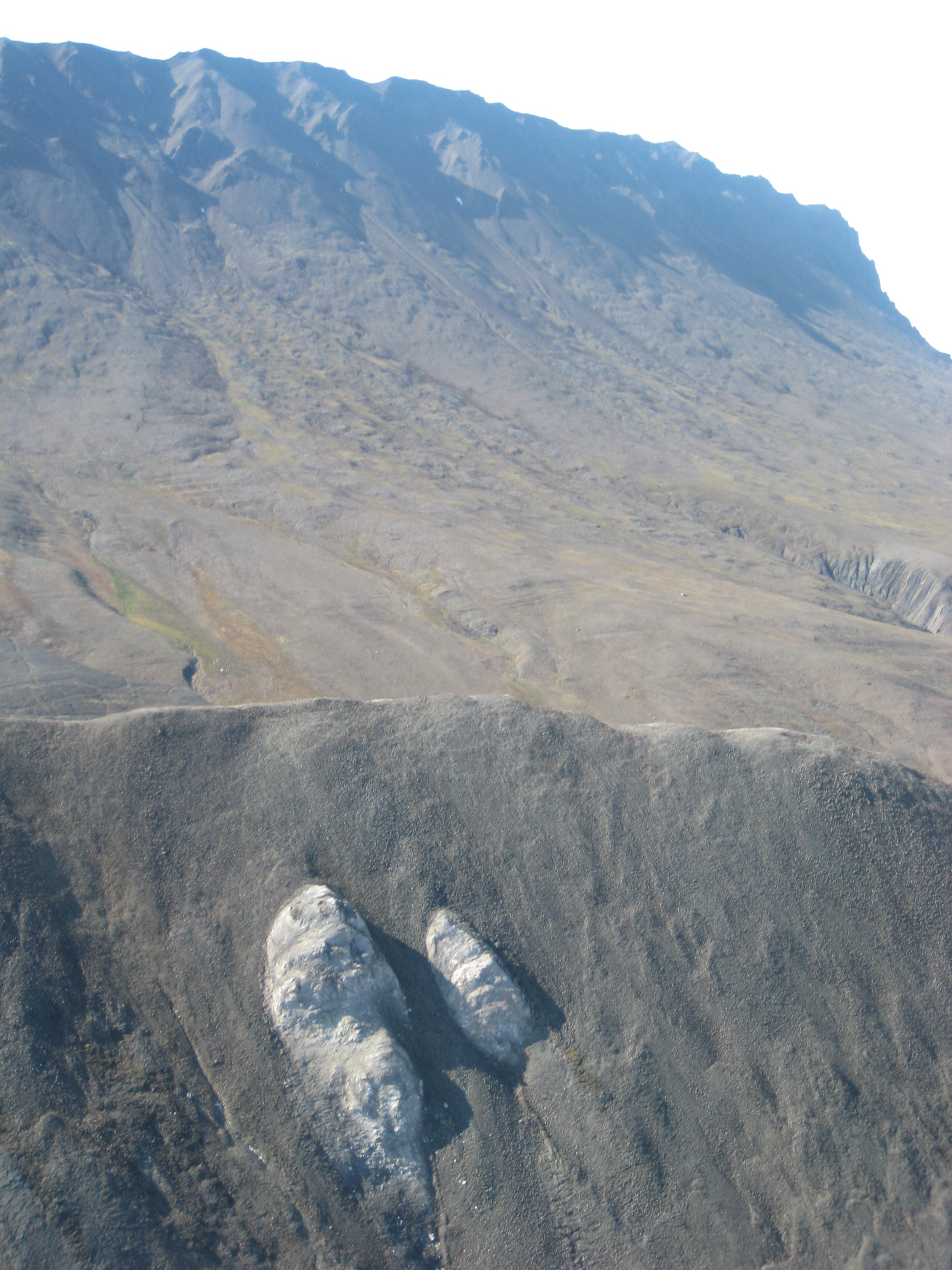 Salt diapir on Axel Heiberg Island, Nunavut, Canada.